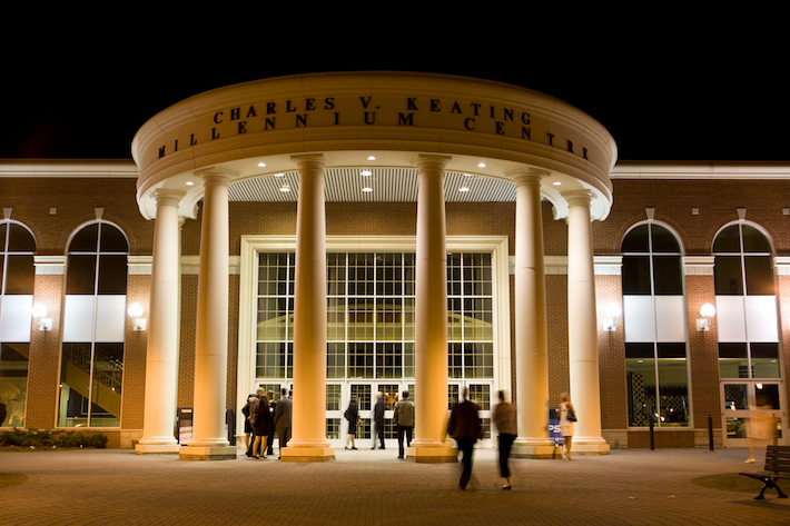 Charles V. Keating Millennium Center